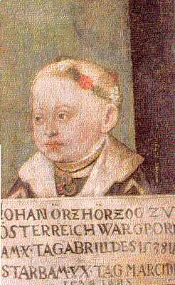 John of Austria, died young.